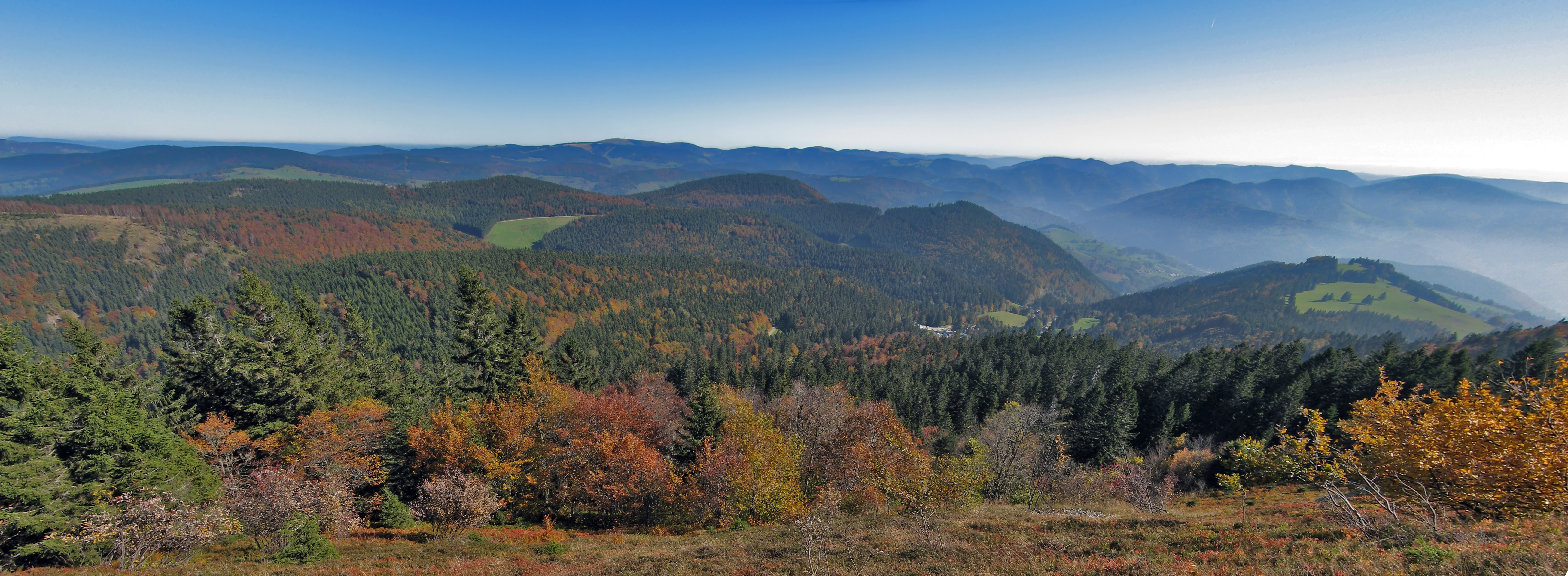 View form the Belchen to the Feldberg